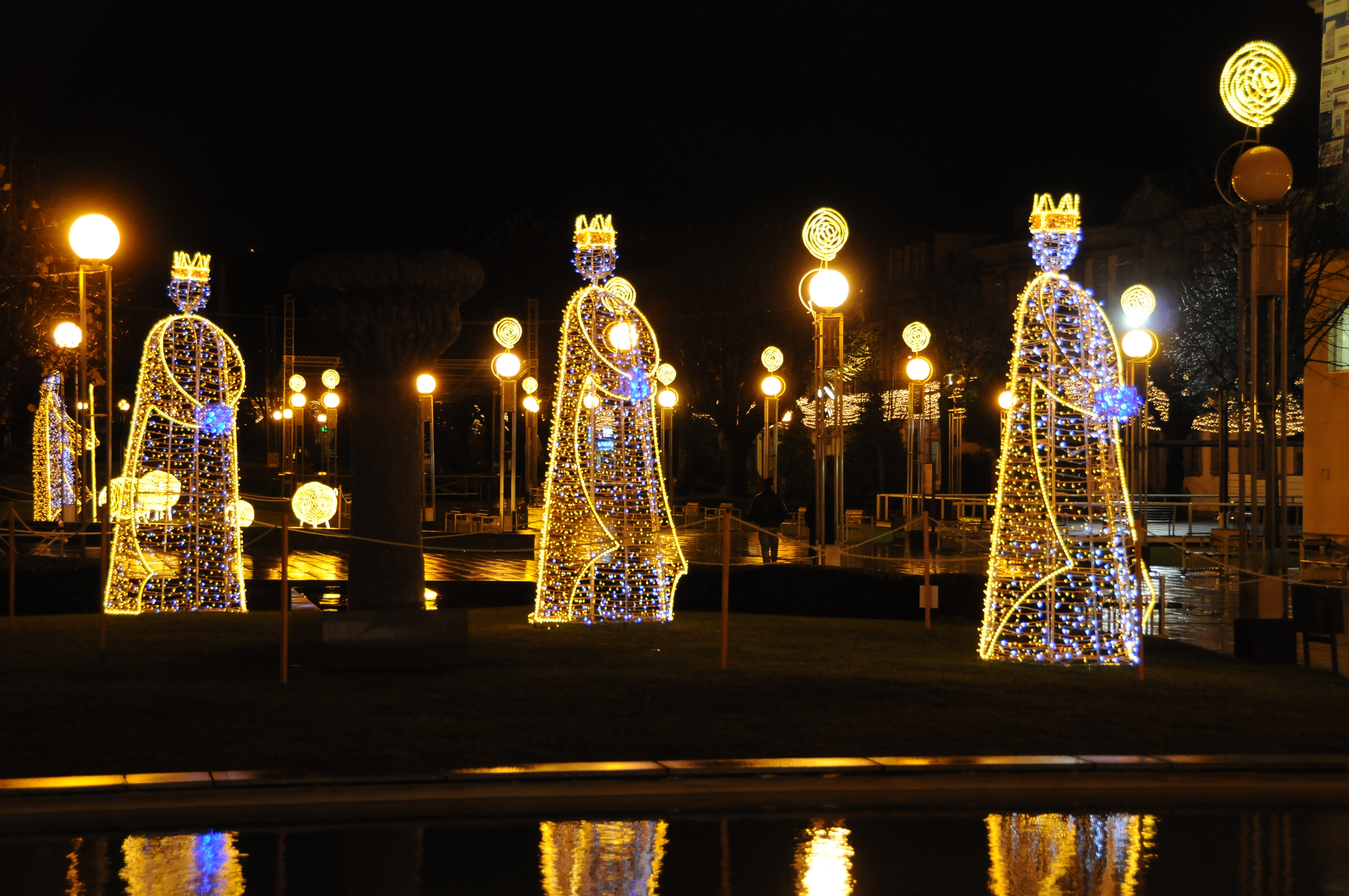 Christmas decorations in Braga, Portugal.